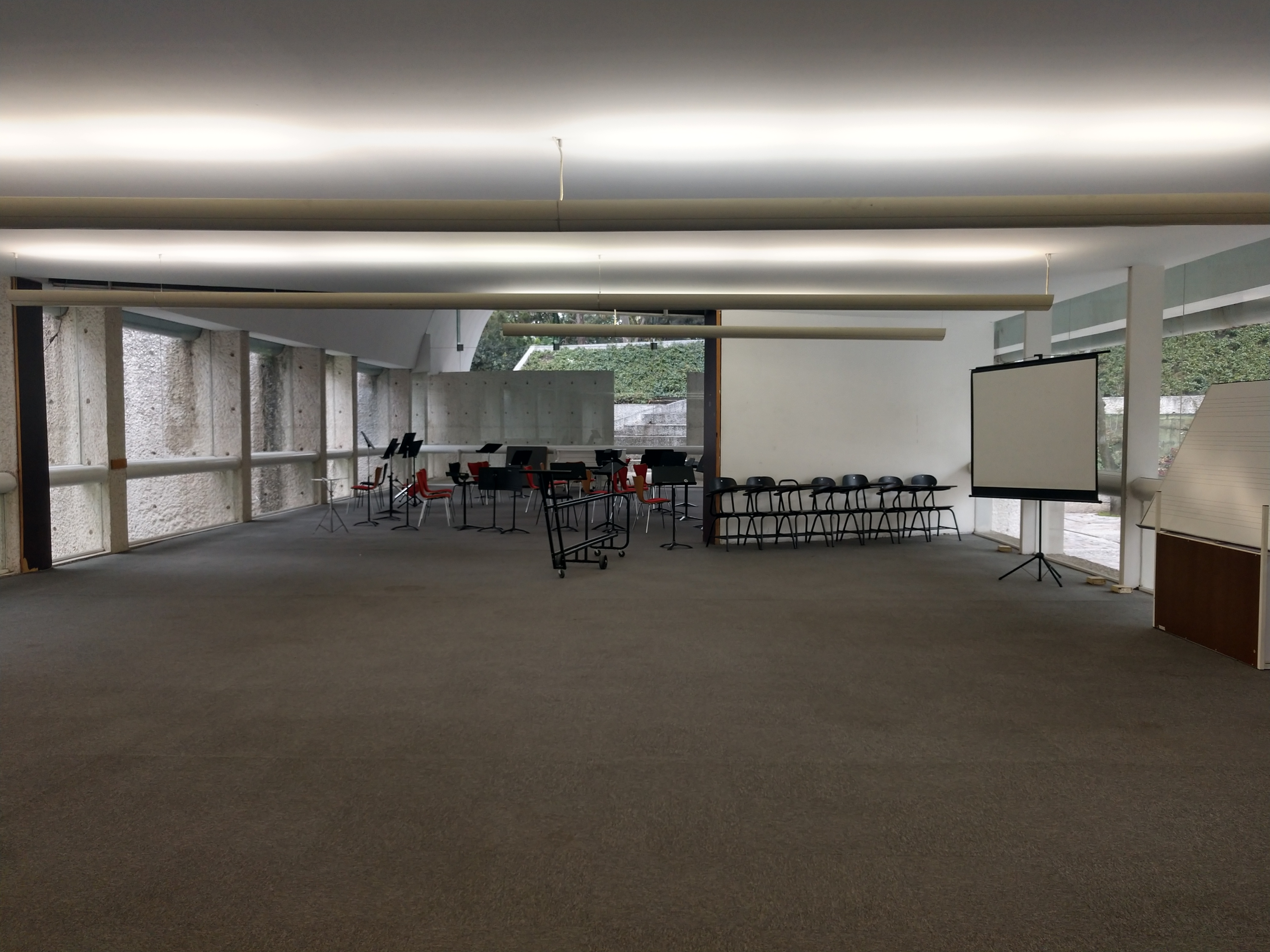 Classroom of the Superior School of Music, Mexico City, Mexico.